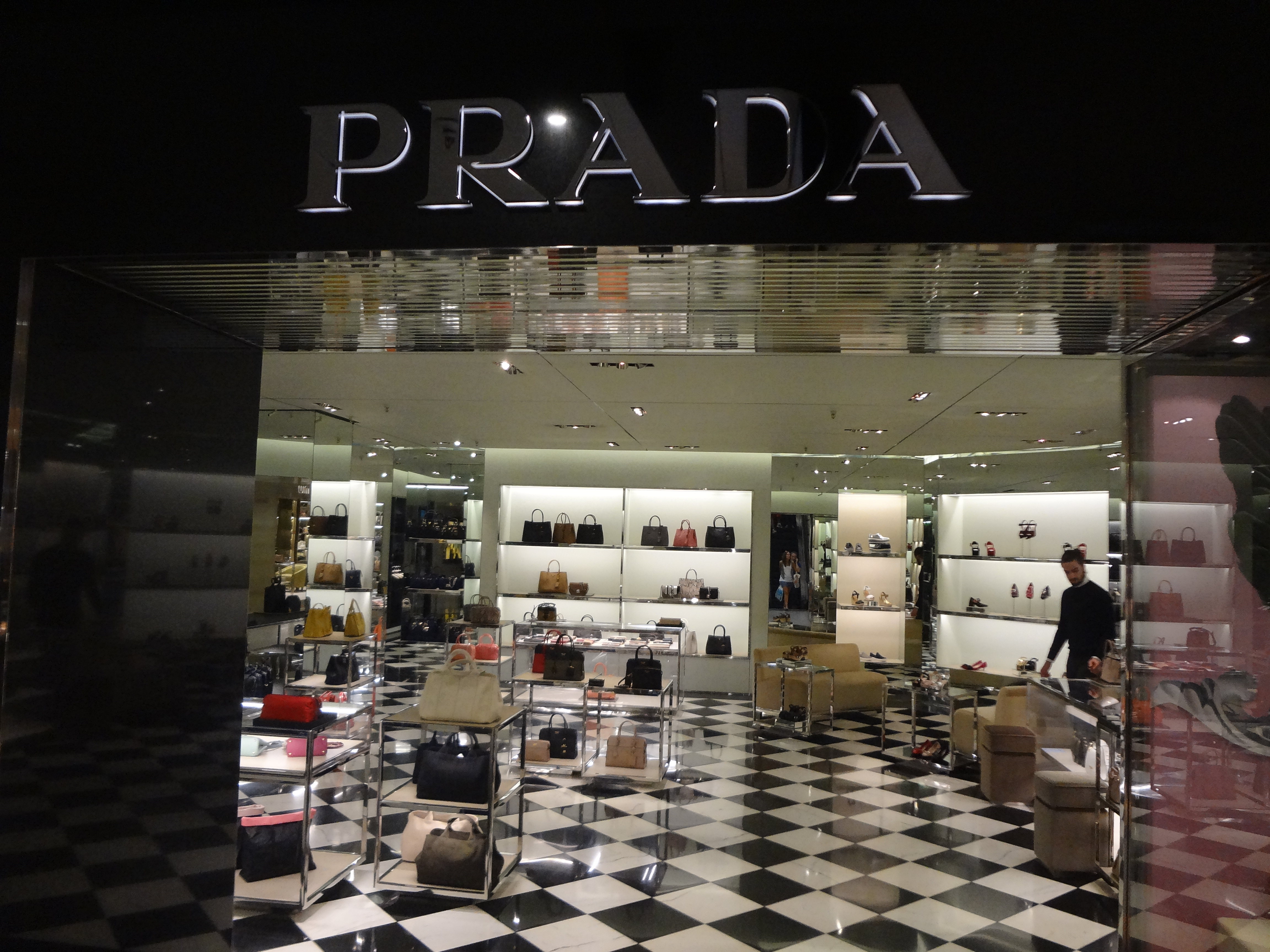 Spain España Prada Madrid, Hermès Photography by David Adam Kess